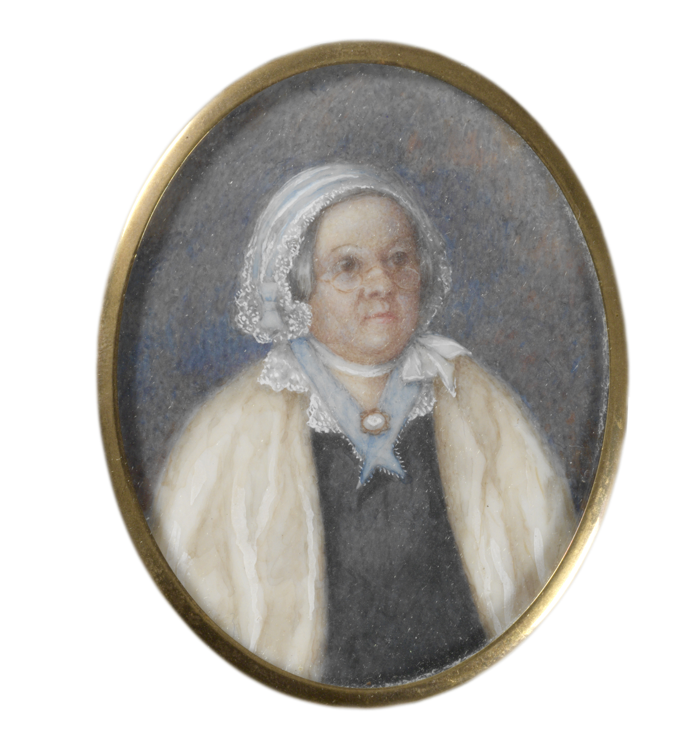 Mary Reibey, baptised Molly Haydock, ca. 1835 - watercolour on ivory miniature MIN 76